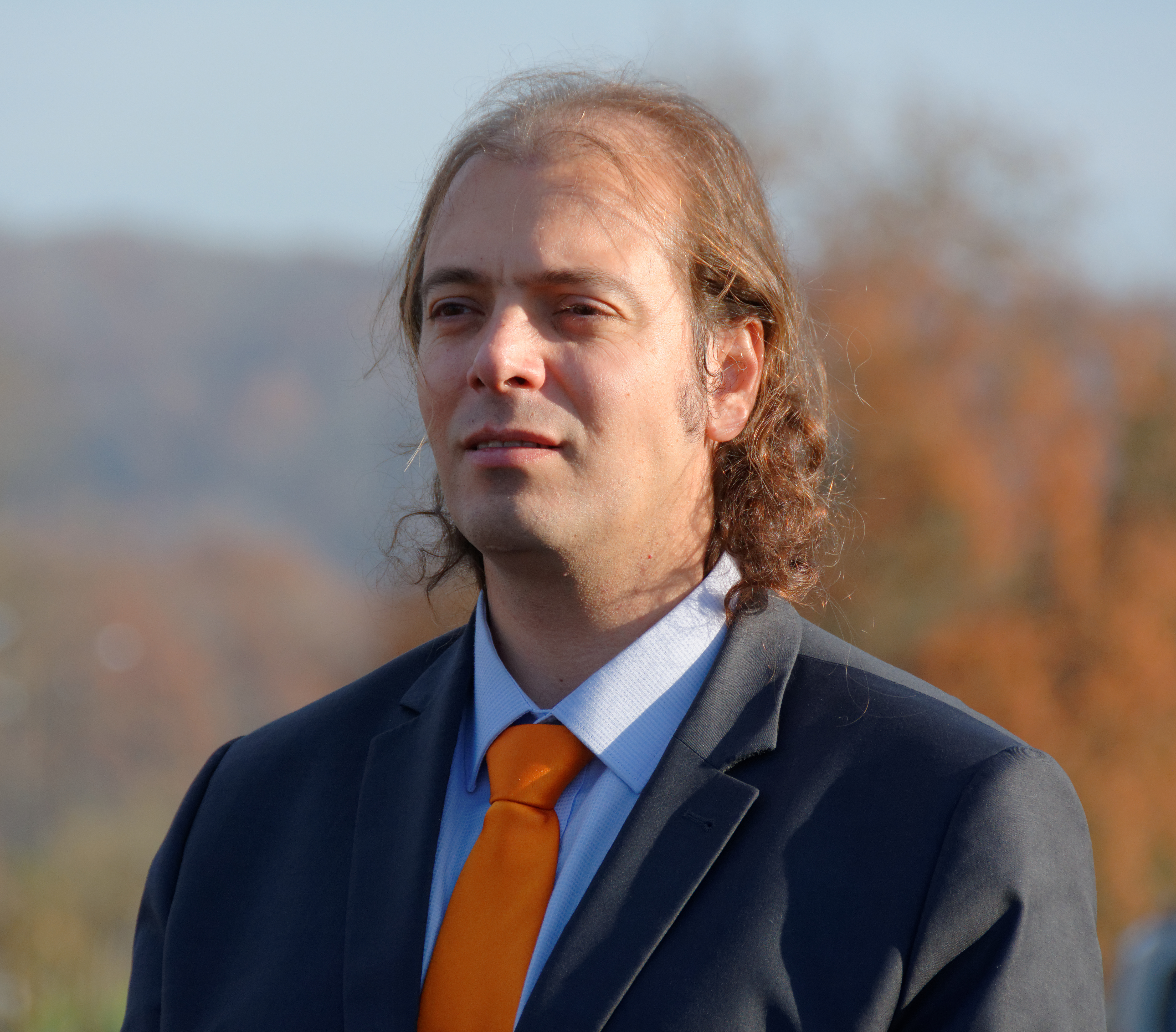 Personality rights warningAlthough this work is freely licensed or in the public domain, the person(s) shown may have rights that legally restrict certain re-uses unless those depicted consent to such uses. In these cases, a model release or other evidence of consent could protect you from infringement claims.